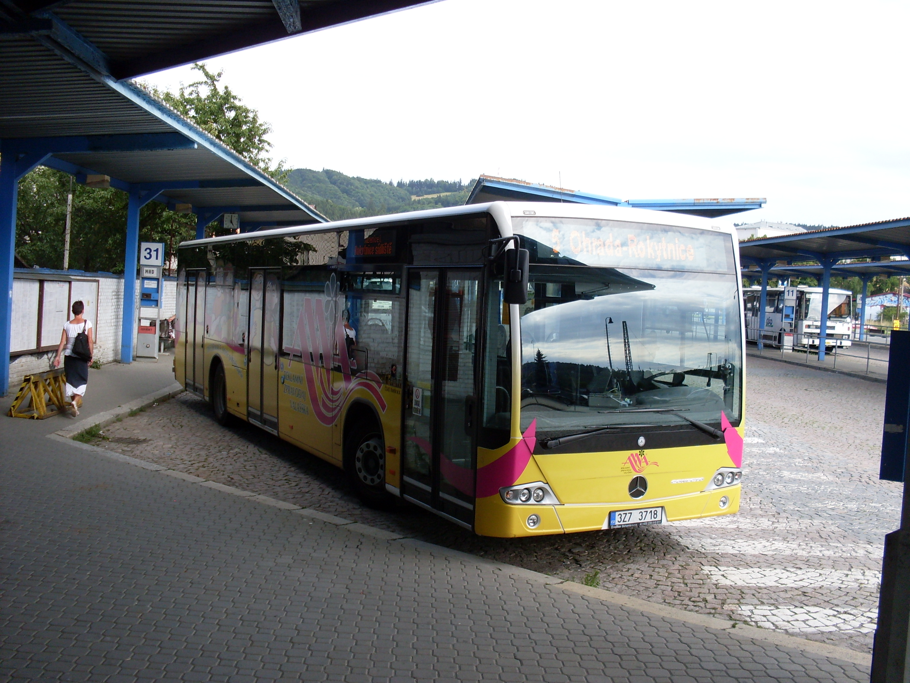 low-floor bus Mercedes-Benz Connecto belonging to urban mass trasportation of city Vsetín